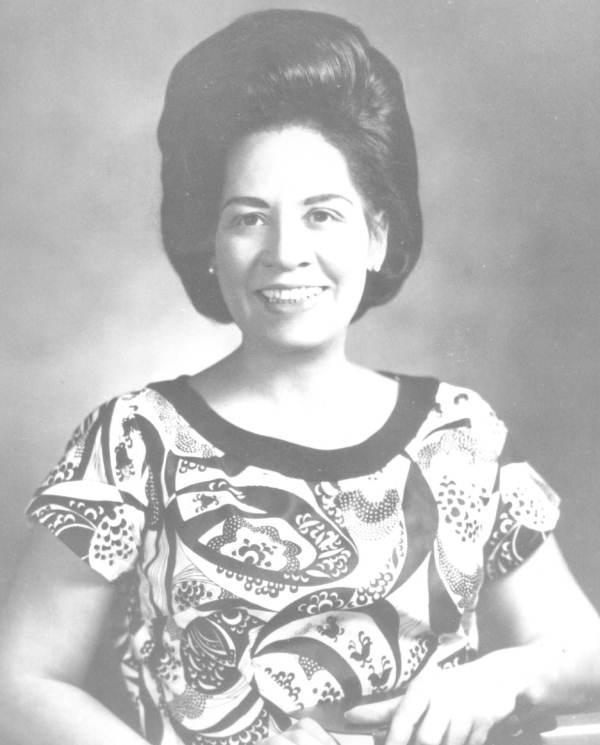 Representative Gwen Cherry.